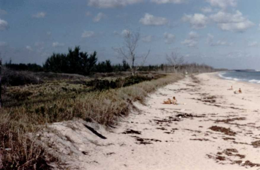 Martin County, Florida: Reed Wilderness Seashore Sanctuary